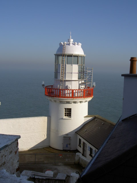 Current Lighthouse, Wicklow Head The active lighthouse on Wicklow Head, which was converted to electricity in 1976. This point is the most east part of mainland Ireland.